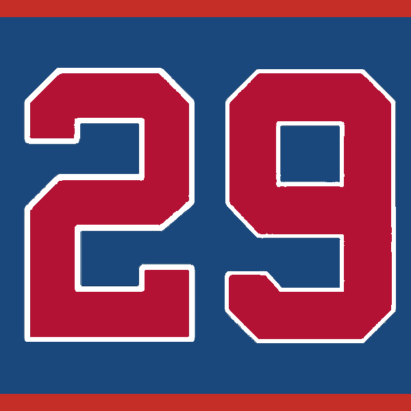 Illustration of John Smoltz's Retired Braves Number